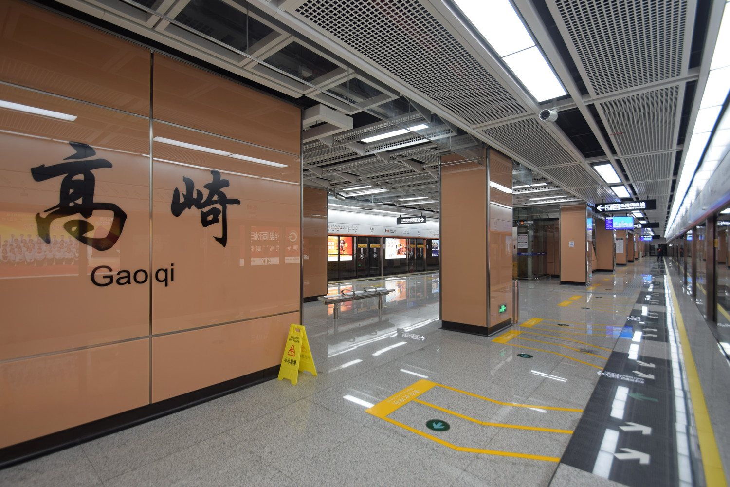 Line 1 Platform of Gaoqi Station, Xiamen Metro